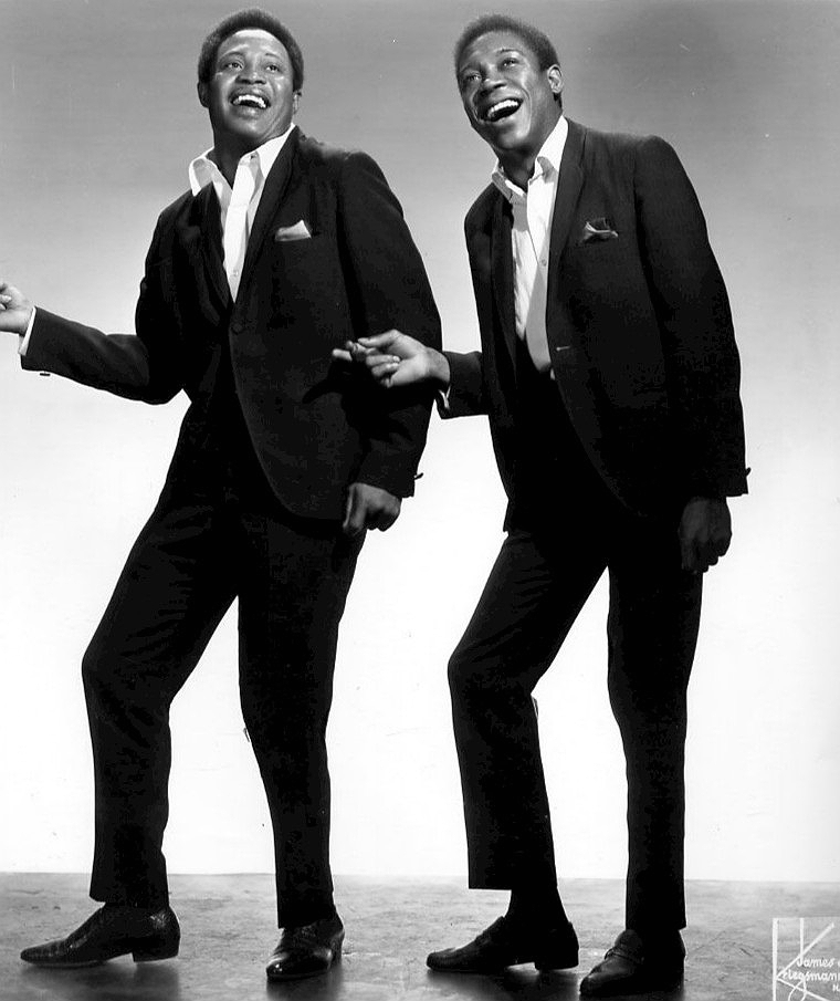 Photo of the musical duo Sam and Dave.